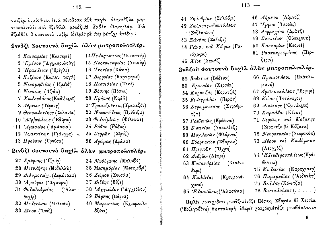 Excerpt from the book Αγιον Όρος ταριχί (Agion Oros Tarihi) by Metropolitan of Stromnitsa Sofronios (1901, pp. 112, 113) showing a list of the Metropolises under the Patriarchate of Constantinople at the beginning of the 20th century (University of Crete, Rethymno).